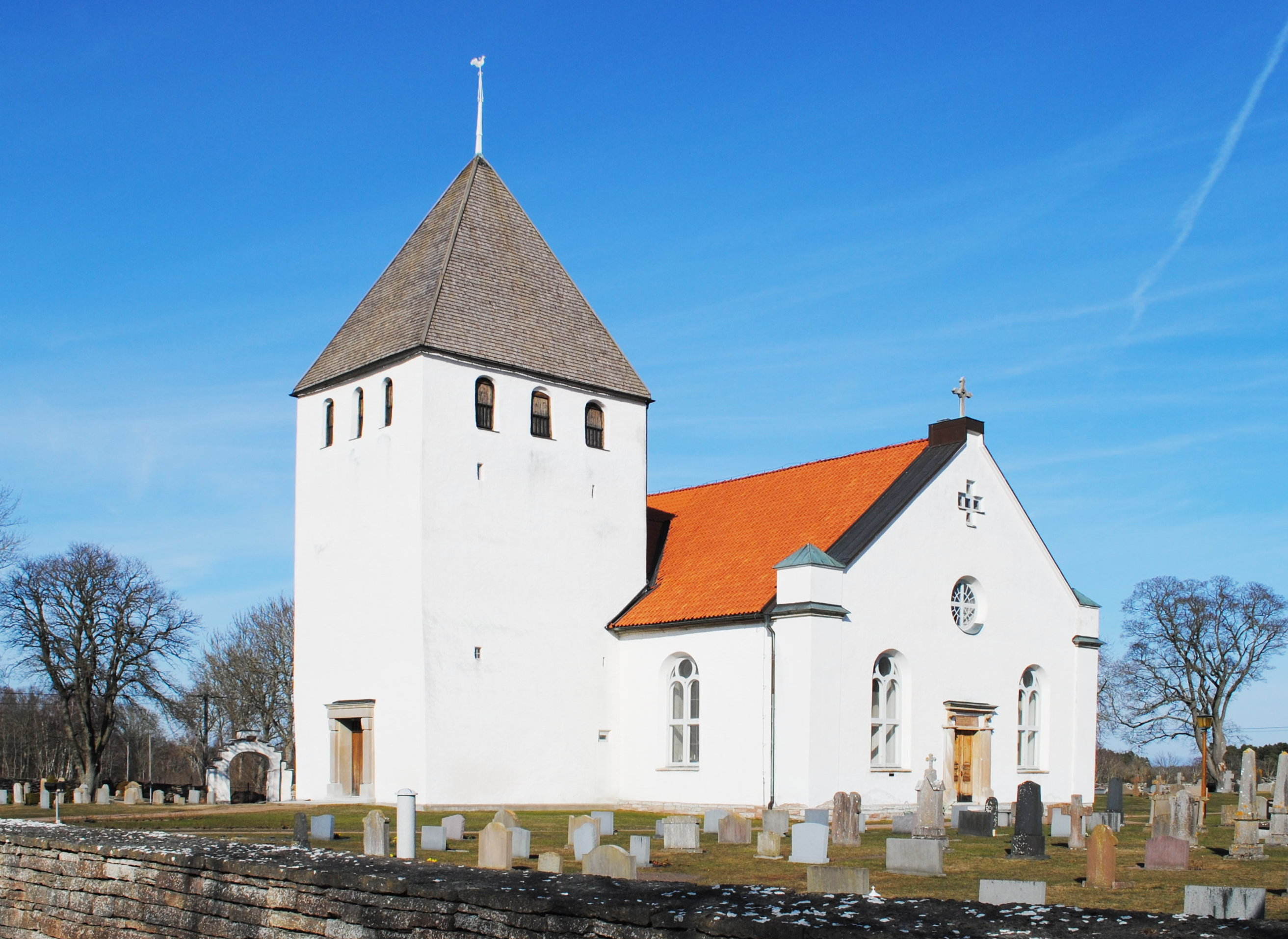 Persnäs parish church, Öland, Sweden (perspective has been justified)